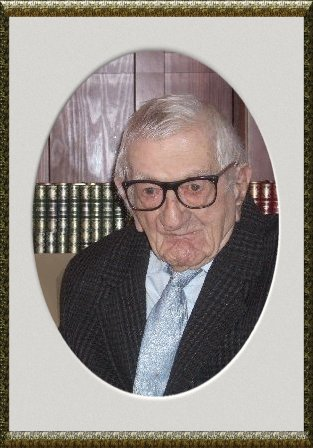 photo of Charles Brunier, former inmate of the Devil's Island, the man that inspired the novel Papillon, shortly before his death, at age 106